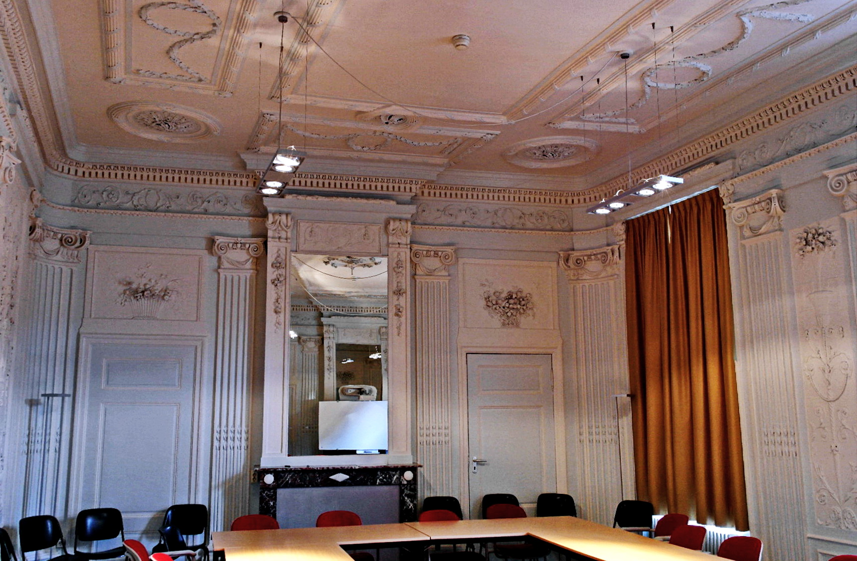 Maastricht, the Netherlands. View of the main parlour on the 2nd floor of Huis Soiron at Grote Gracht. The late 18th-century mansion was built by Mathias Soiron for his two brothers, canons of Saint Servatius. The building is now used by the Faculty of Arts of Maastricht University.